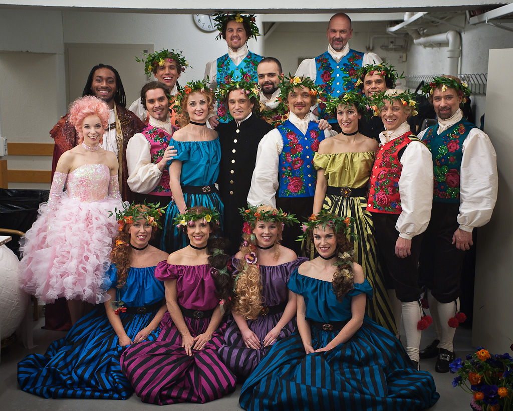 Romeo & Julia Kören in Camilla Thulins costumes with guest artists Nathalie Nordquist and Camilo de Bresky at the Nobel Price Banquett December 10th 2011.